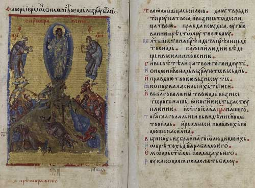 Page of Serbian (or Munich) Psaltir,Serbian illuminated manuscript from end of XIV century.